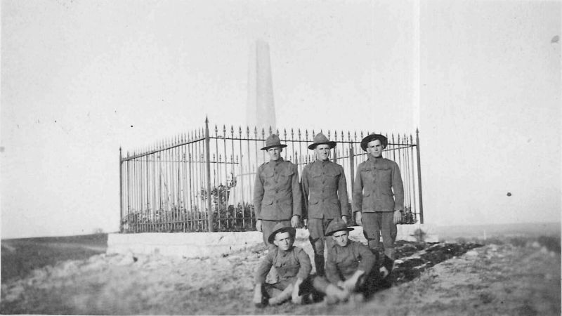 2014-0045m Date: 1918 Location: Near Fort Riley, Kansas MLA filing: World War I-Henry Gaede Collection, No.41 Original Size: 10.2 x 5.7 cm Source: Henry Gaede Photographer: Notes: (L to R) Menno Buller, A.E. Hiebert, Bill Knuk, Ben Dirks, Unknown Man